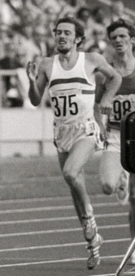 Steve Ovett at the Men 800m final 1976 Olympics. Press Photo Cuban athlete Alberto Juantorena is subject of PBS WORLD Series